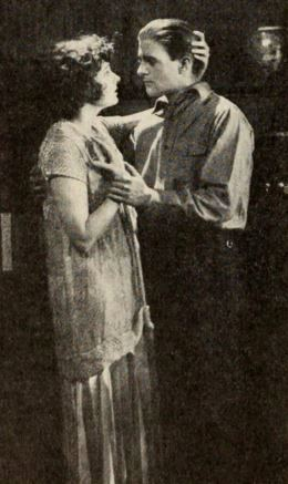 Still from the American film Thin Ice (1919) with Corinne Griffith and an unidentified actor, on page 42 of the June 7, 1919 Exhibitors Herald.